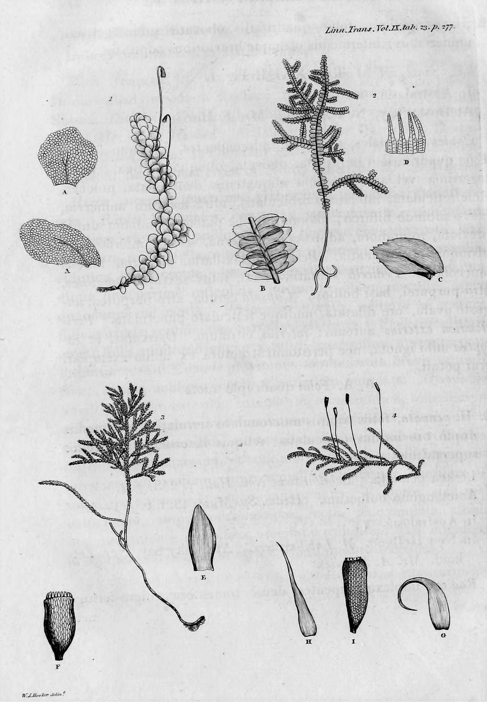 William Jackson Hooker - illustrations of the moss 'Hookeria' from Transactions of the Linnean Society of London